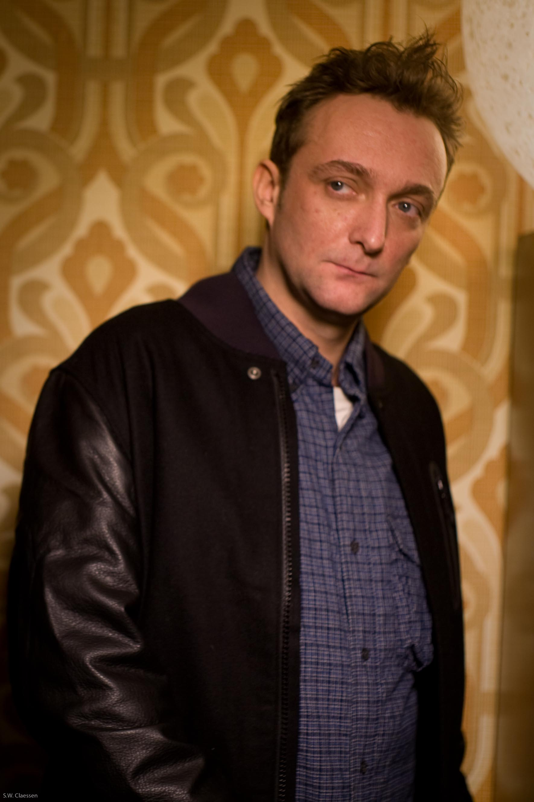 Rimer London - Love Dagger shoot